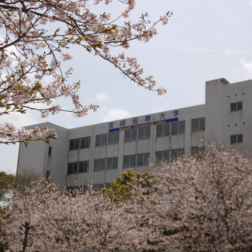 Sakura at MIC